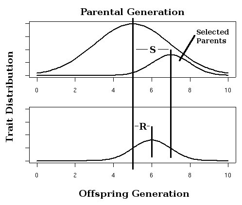 Graph illustrating the relationship between S (selection) and R (response) in an artificial selection experiment. A value for the trait is selected for and compared to the standard mean S = |(value of trait) - (average)|. Upon examining the next generation, the new average is the response to selection R = |(response average) - {initial average}|. Heritability (the extent to which genetic variation contributes to variation in phenotype) can be determined by taking R/s or G/d.